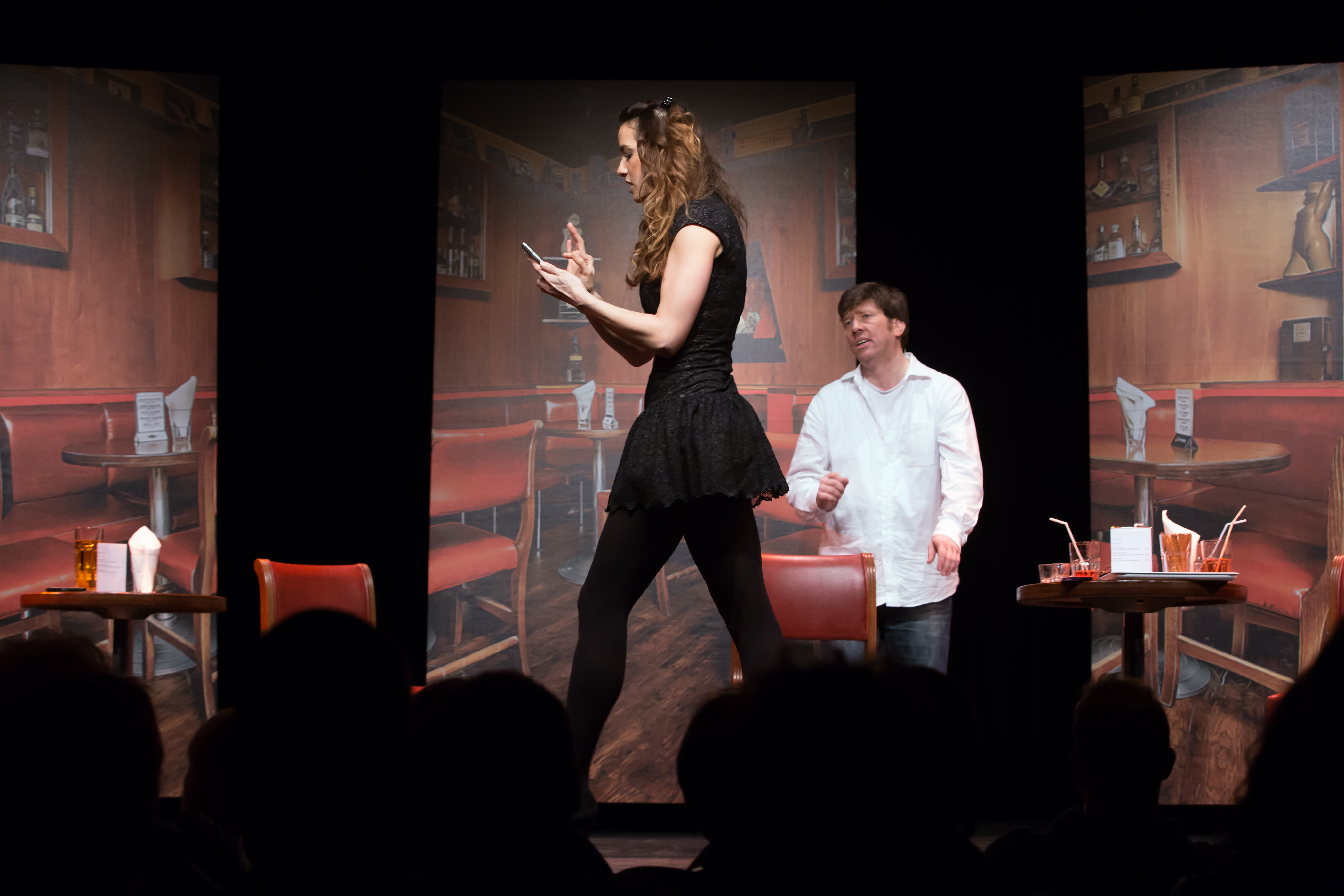 Premiere of Match Me If You Can with Nina Hartmann and O. Lendl at Metropol in Vienna, Austria.